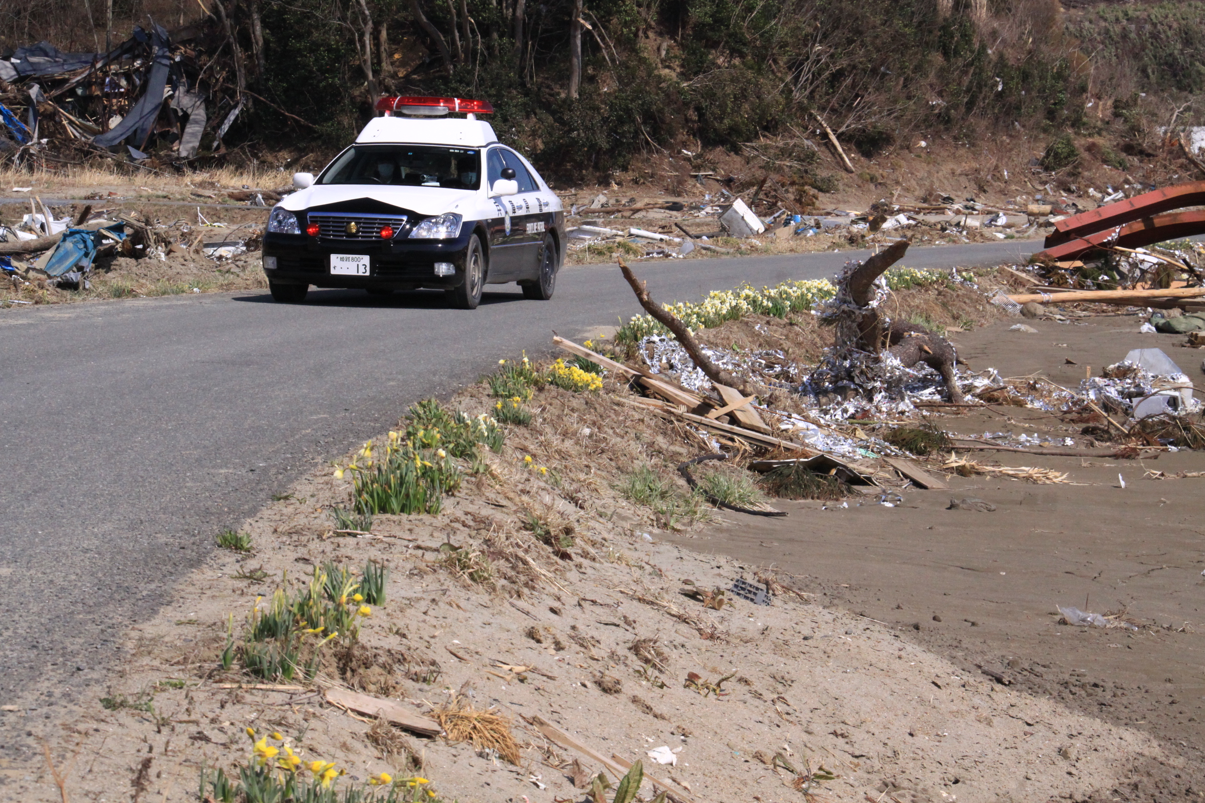 Narcissus bloom again in the wilderness by Tsunami. It is a patrol car that came for support from Hyogo prefectural police in Kesennuma, Miyagi.